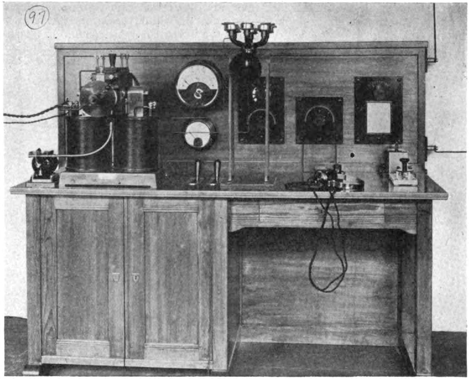 One of the first AM voice radiotelephone stations used on ships, 1919, made by the J. Berliner Co. of Vienna. It uses a 3 kW Poulsen arc radio transmitter (black mechanism, left), one of the first technologies capable of transmitting audio, used from 1903 until vacuum tubes replaced it in the mid-1920s. It consists of an electric arc between two electrodes in a chamber of alcohol vapor, between the poles of an electromagnet. A resonant circuit consisting of a coil and capacitor is connected across the electrodes. When a DC voltage is applied, the negative resistance of the arc generates oscillating radio frequency currents, which are applied to the antenna. The carbon microphone, (center top) is connected directly in the antenna wire and it's varying resistance modulates the RF current to the antenna. The microphone must handle the 3 kW (~3.5 amp) power output, so it is made of 6 microphones in series. The station can transmit either radiotelephony (sound) or radiotelegraphy (Morse code) at a higher output power; there is a telegraph key on the desk. The receiver uses a crystal detector. With a 45 meter (150 ft) mast antenna, it could transmit 50 to 100 km (30 to 50 miles).